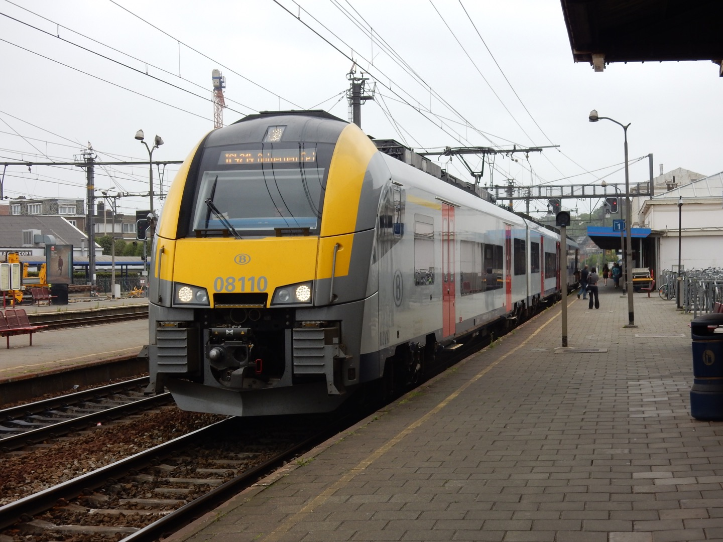 A Desiro trainset at Lier station